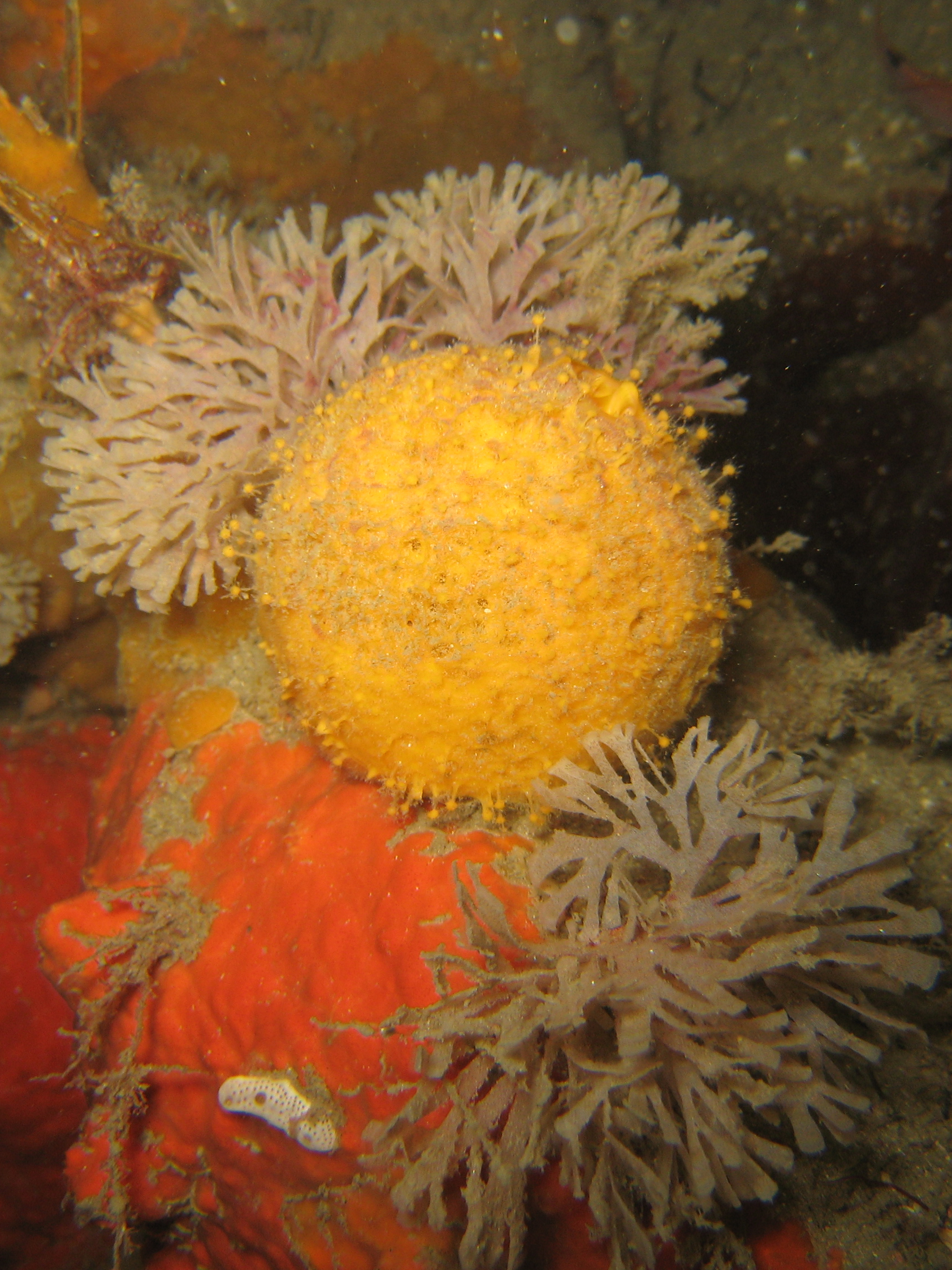 Tethya citrina surrounded by Chartella papyracea in Carantec.